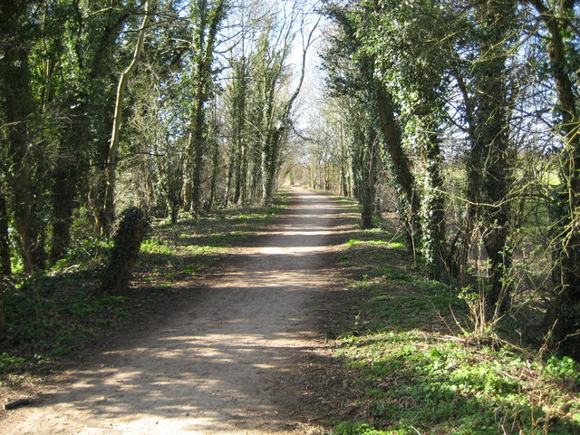 Hertingfordbury: Former Hertford to Welwyn railway The former Hertford & Welwyn Junction Railway was opened in 1858 and closed in 1951. This is the trackbed west of the former station at Hertingfordbury looking towards Welwyn. It now forms part of National Cycle Network Route 61 which will ultimately connect Dorney near Maidenhead with Rye House Station where the River Stort joins the River Lee.